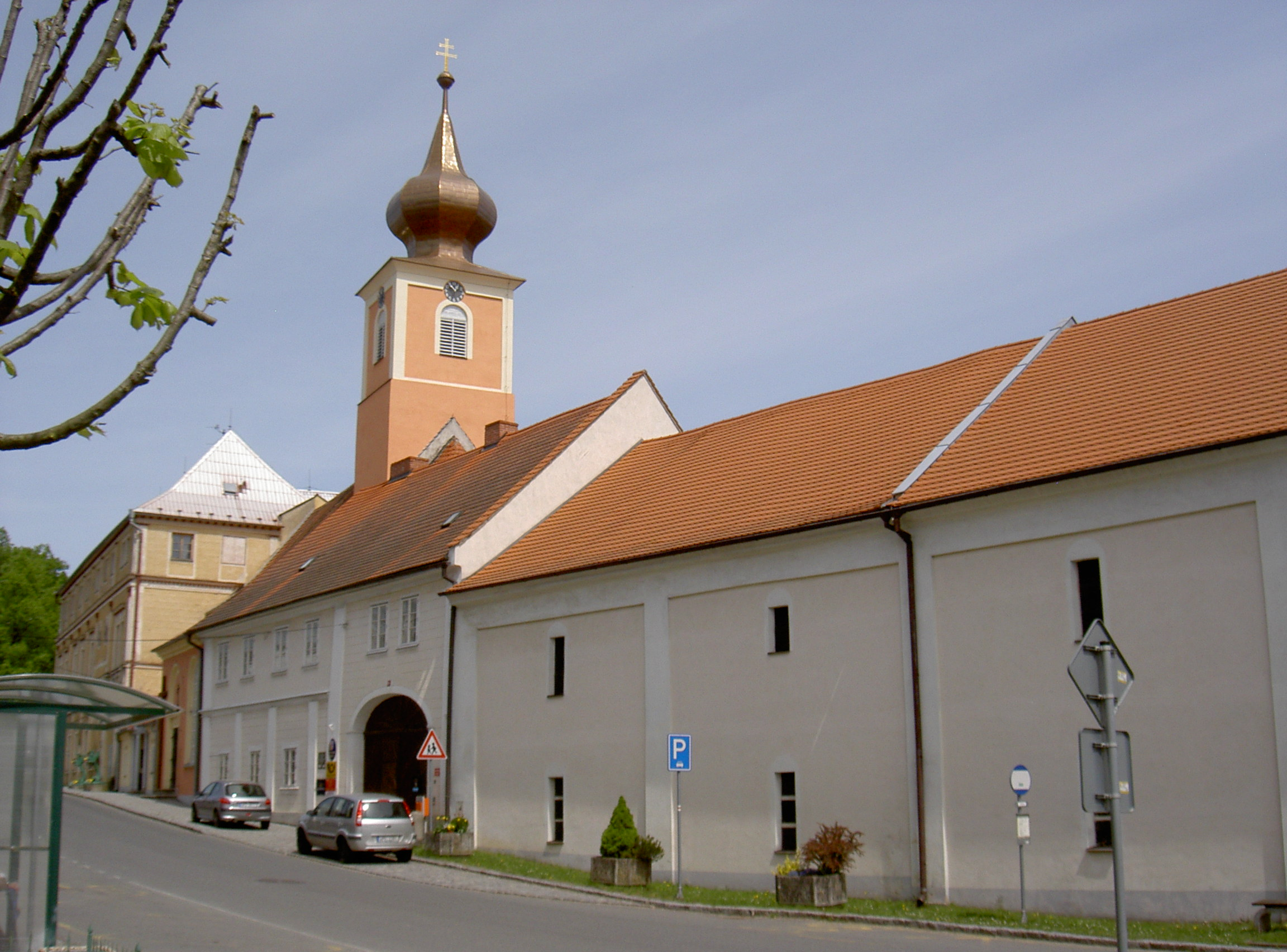 Castle Trhanov